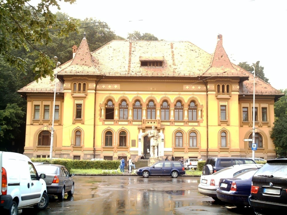 County Library in Braşov